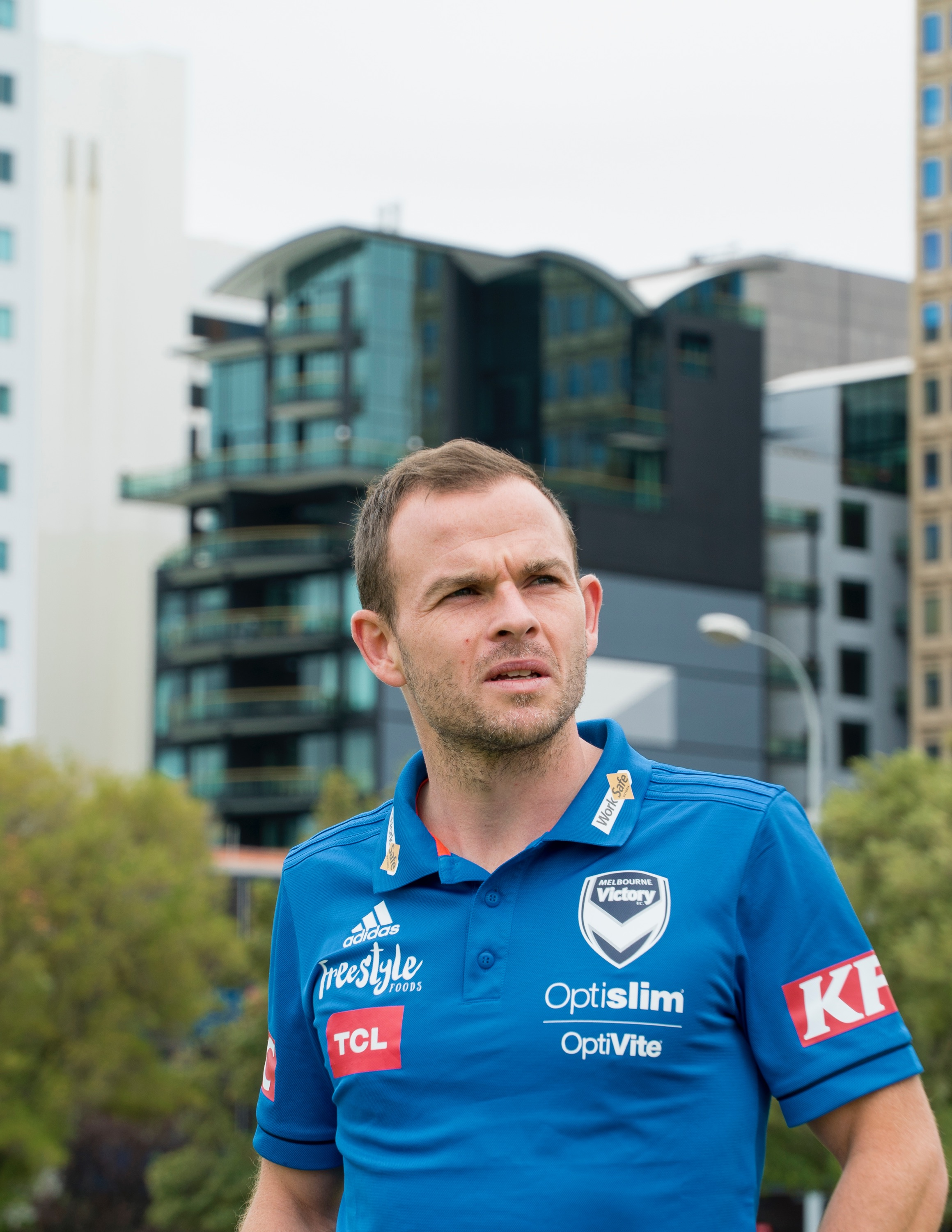 Leigh Broxham in 2018